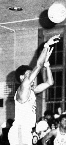 Fort Hamilton High School sophomore Albert King pictured taking a jump shot during a varsity high school basketball game. King would go on to earn All-American honors in high school, gain national recognition at the University of Maryland and become a veteran in the NBA.